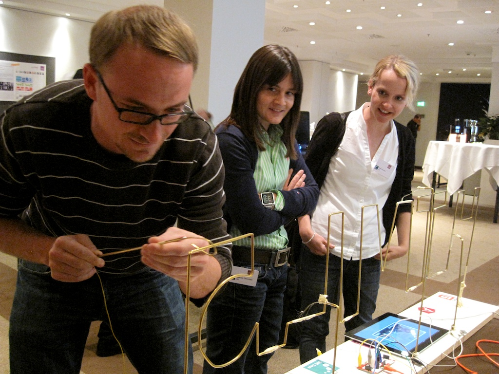 A man playing the wire loop game at the SWE conference 2013.